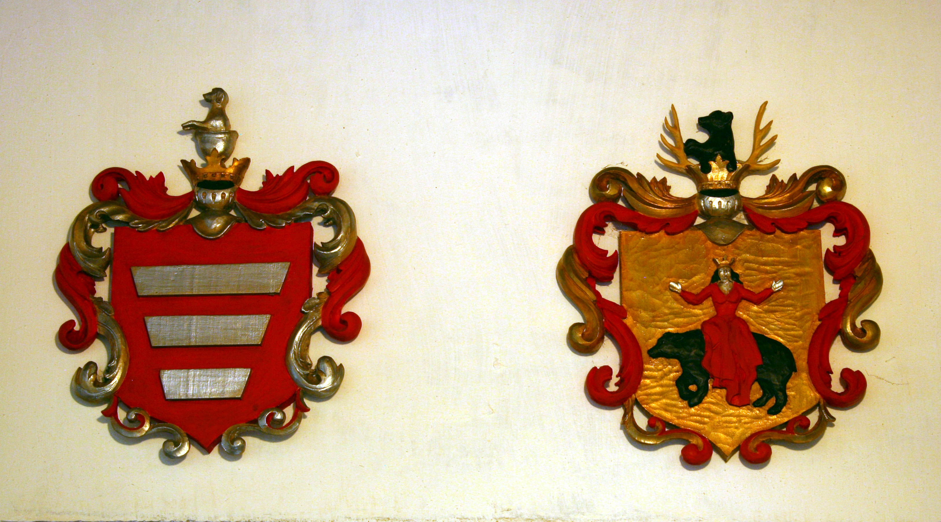 The manor house of Rdzawa inside, Skansen in Nowy Sącz, Poland